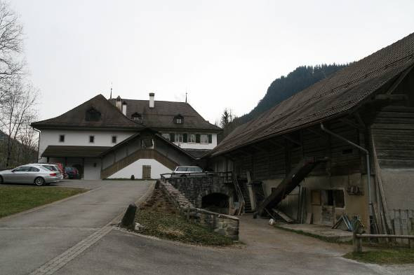 Blankenburg Castle seen from the north.